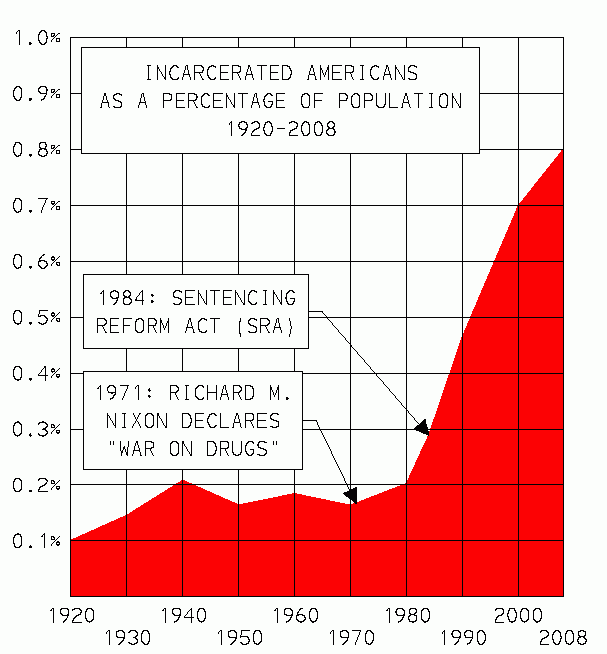 Graph demonstrating the incarcerated population relative to the general population.